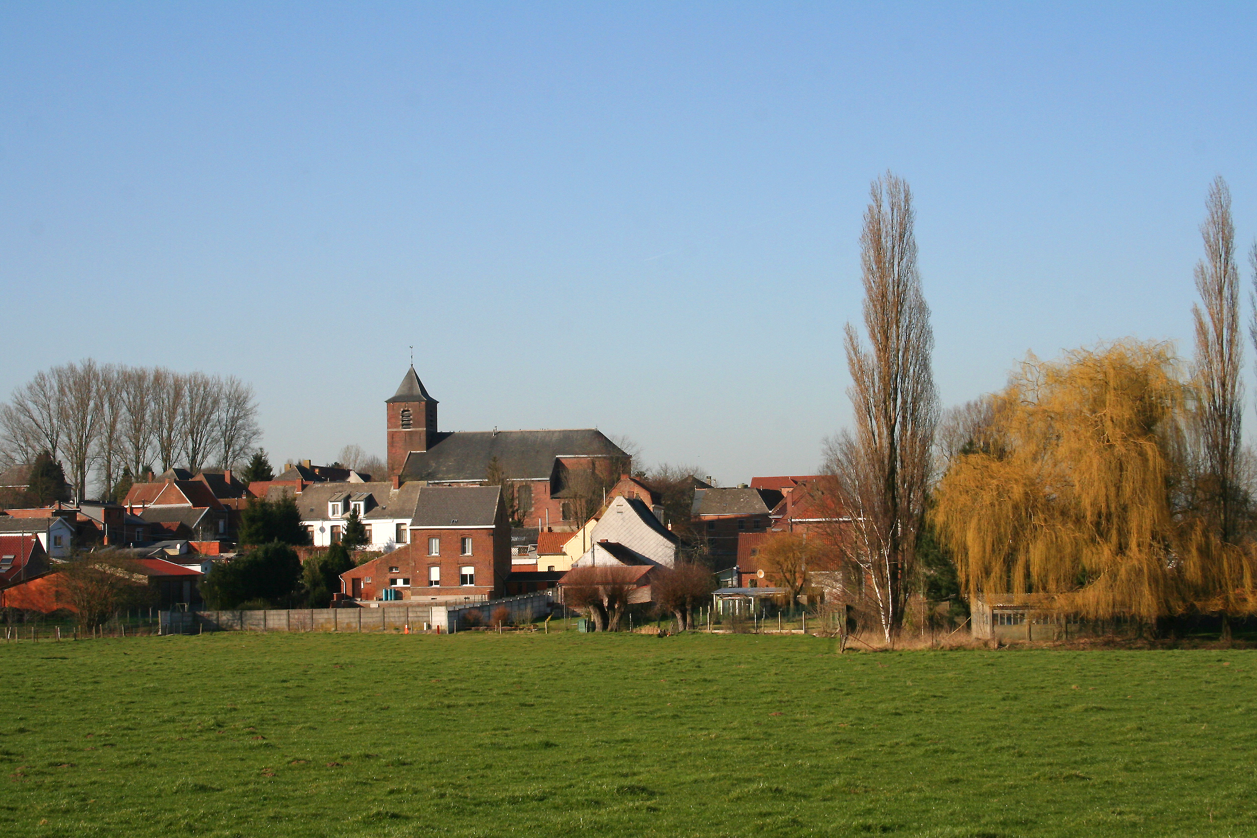 Bouvignies (Belgium), the town viewed from the Vieux Chemin de Villers-Saint-Amand.